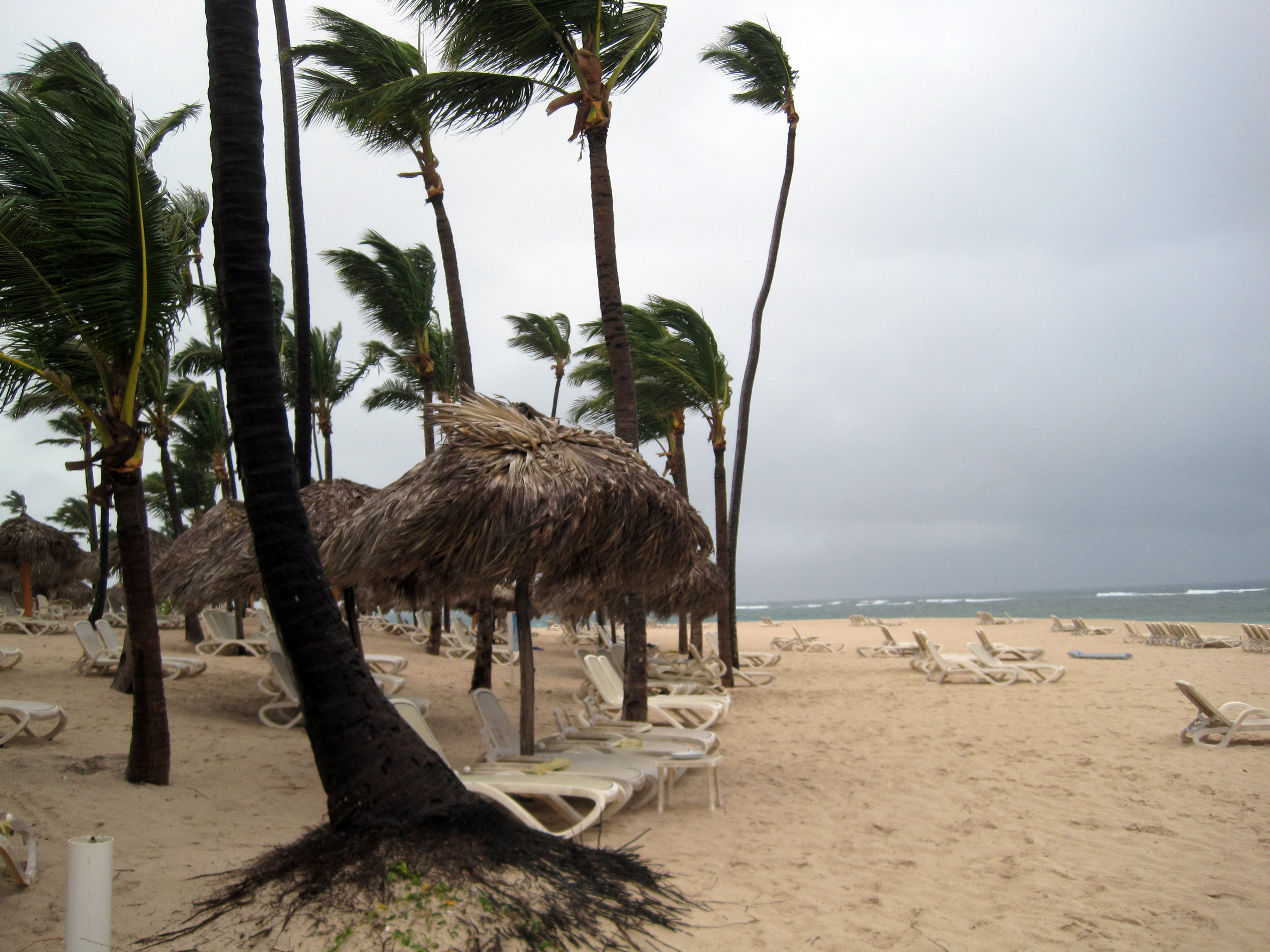 Storm Whipping the Palms. Photo was taken in Bávaro, La Altagracia, Dominican Republic.